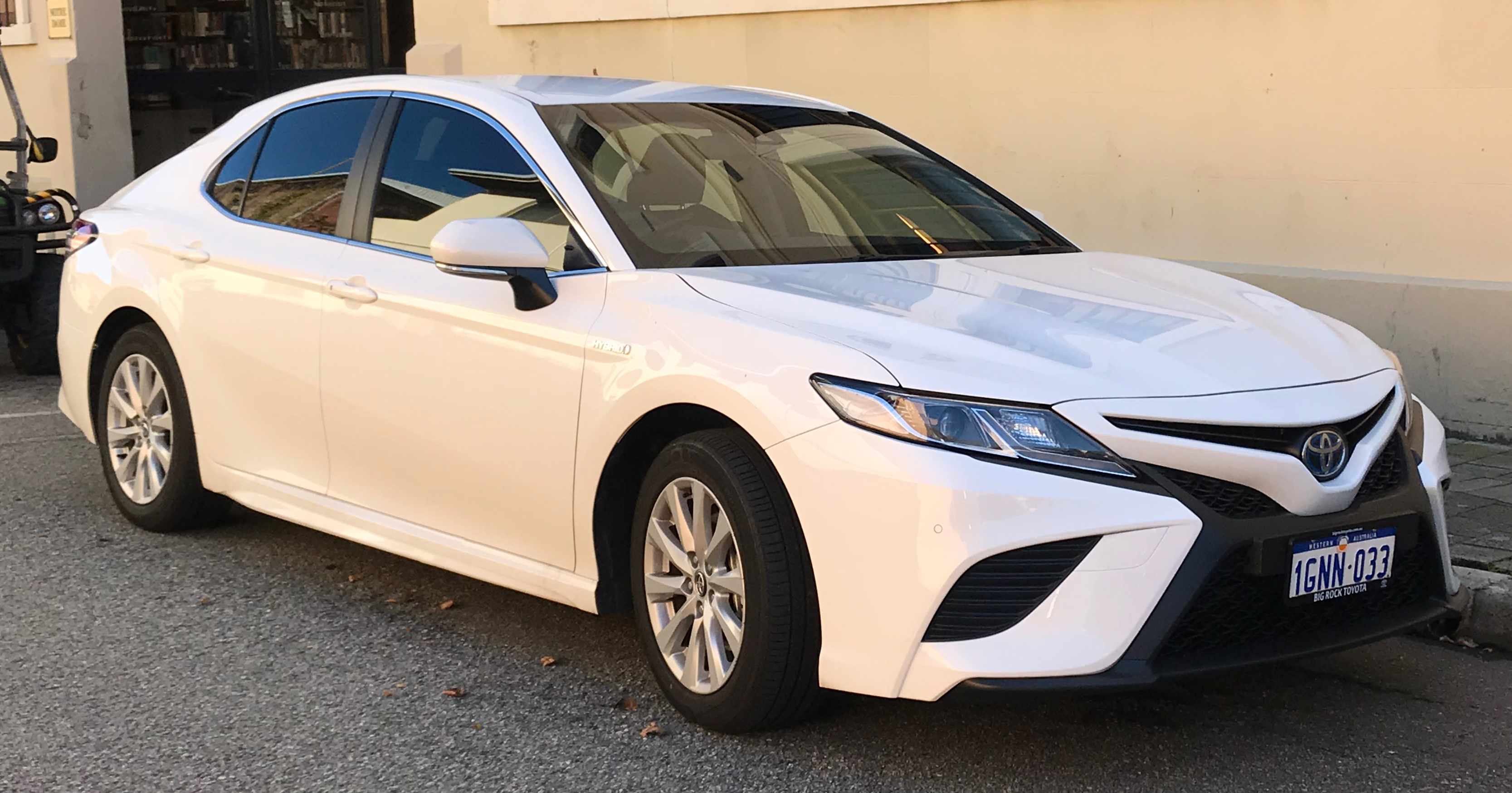 2018 Toyota Camry (AXHV71R) Ascent Sport Hybrid sedan. Photographed in Fremantle, Western Australia, Australia.